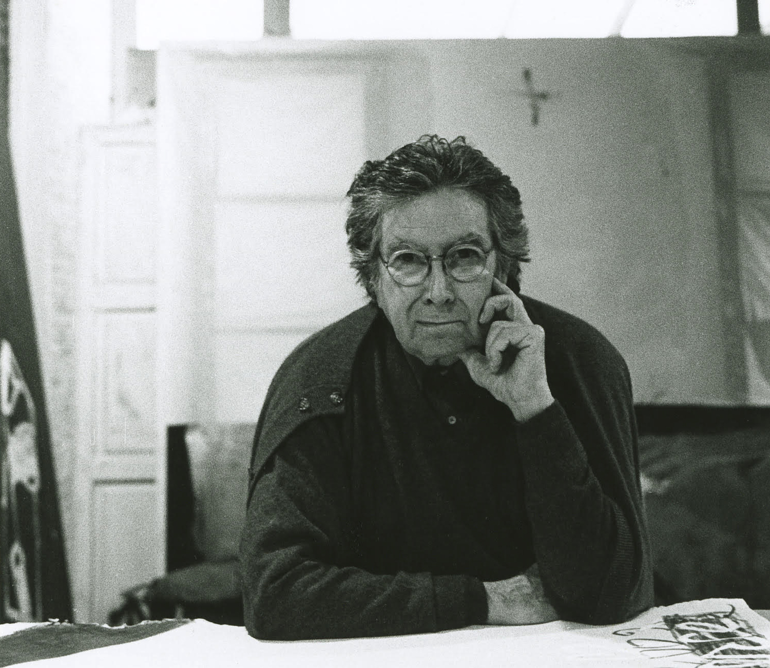 Antoni Tàpies at his studio, Barcelona, 2002